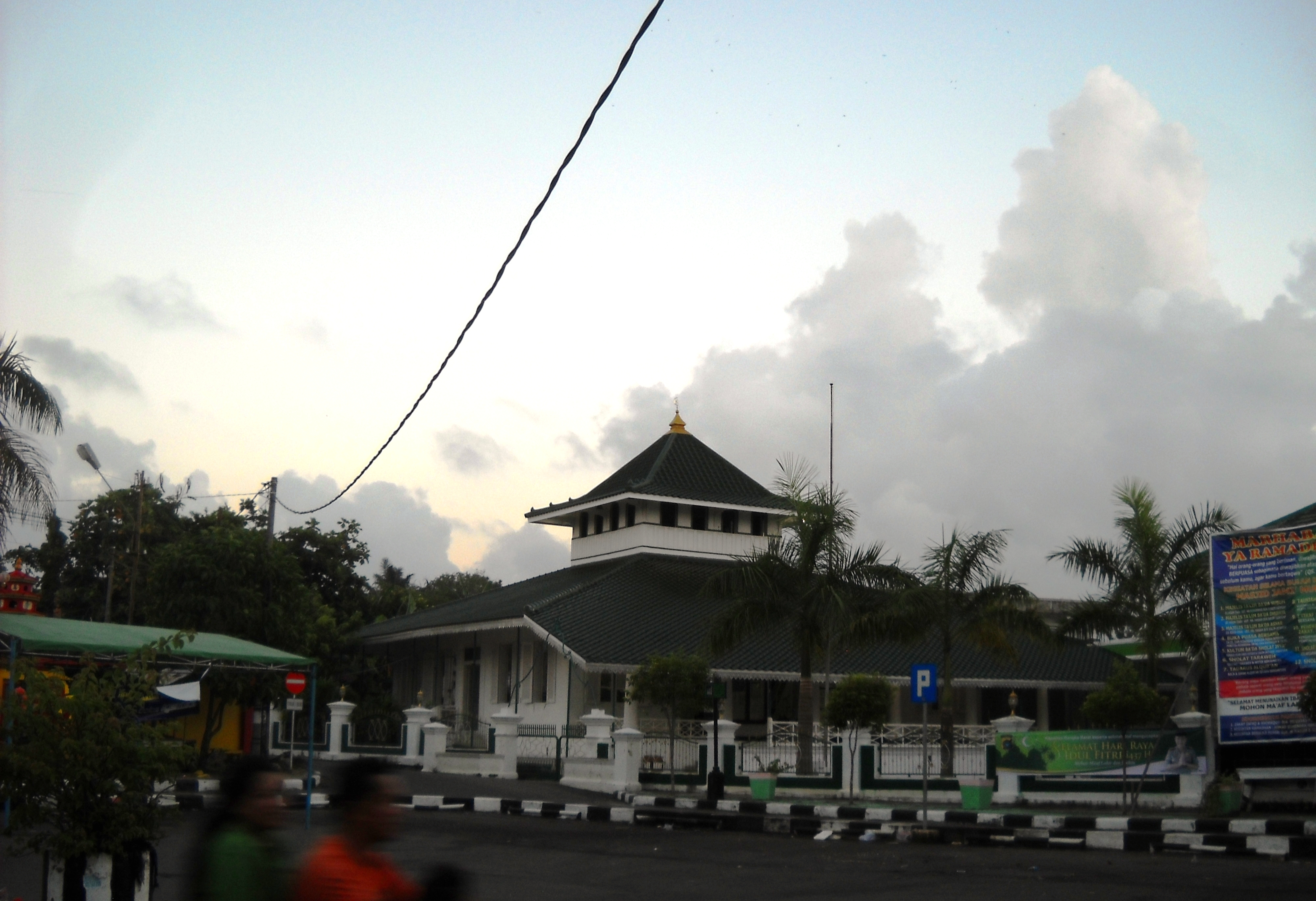 Jami Mosque, the oldest mosque in Mentok, Bangka Island (bulit in 1800's).